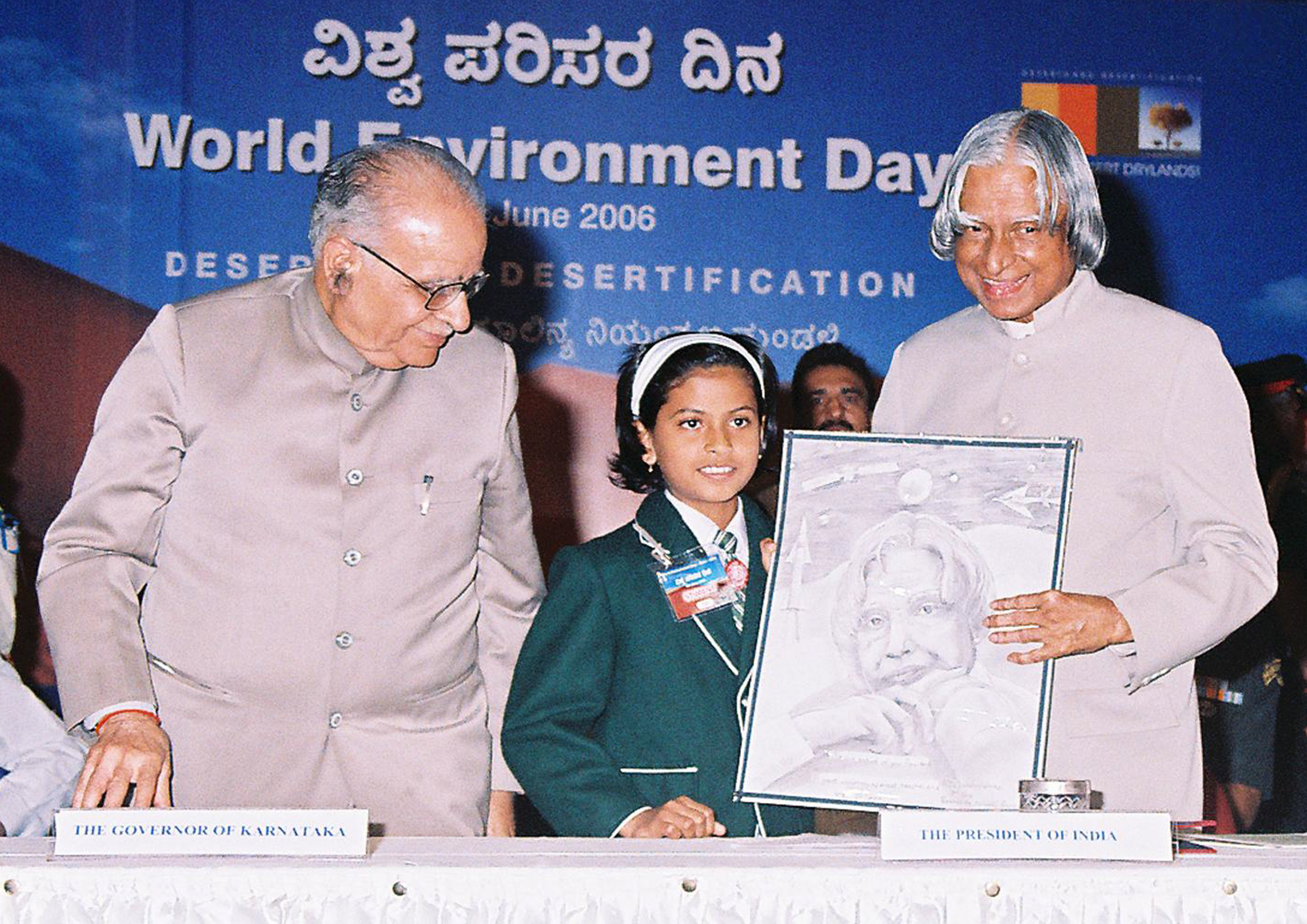 5-06-2006 : Presenting the portrait of Dr.A.P.J.Abdul Kalam while receiving an award (Karnataka state polllution control board painting contest)